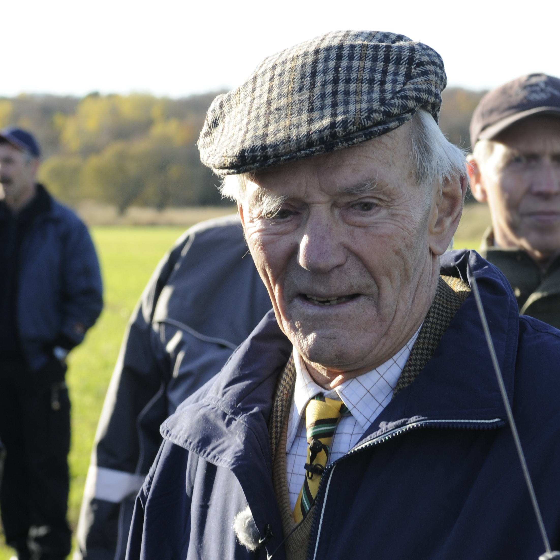 Wilhelm Mohr visiting Storfosna to mark the 70th anniversary of the Neutrality watch which had an Air strip in this location